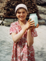 Lezgian People.